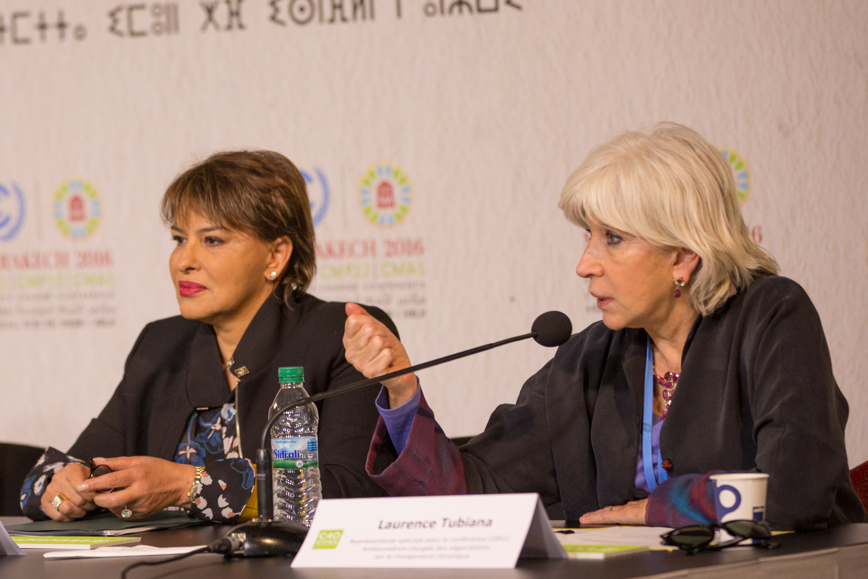 Women4Climate - with Anne Hidalgo, Patricia Espinosa and leading women in climate